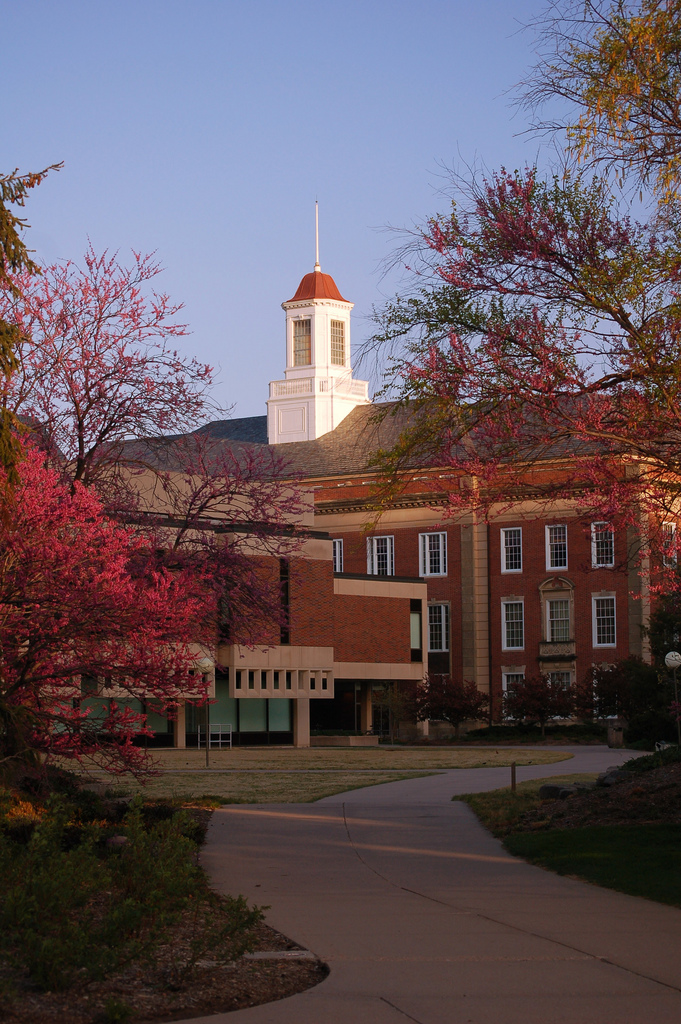 The Don L. Love Memorial Library is the main library in the University of Nebraska-Lincoln library system. It is located on the southern edge of the city campus.